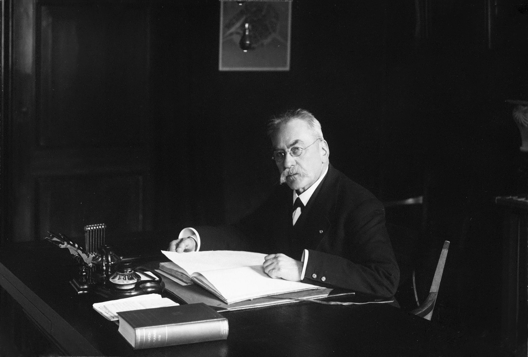 Petrus de Hoop, former mayor of Sneek